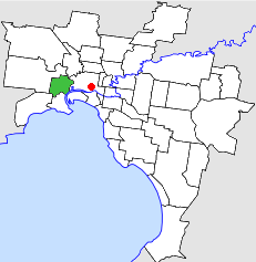 Location of the City of Footscray within Melbourne.